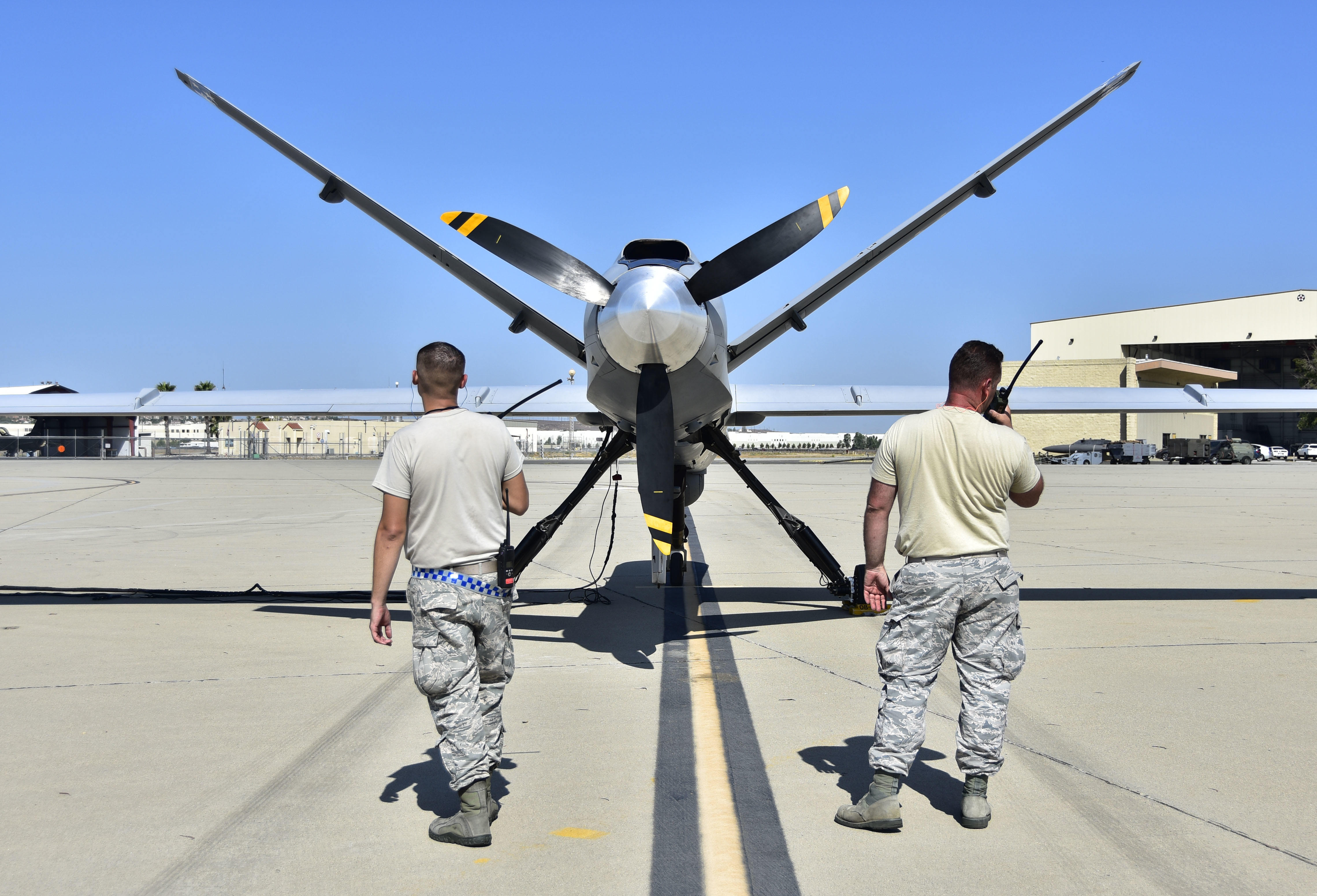 Members of the 163d Aircraft Maintenance Squadron,163d Attack Wing, California Air National Guard, conduct a preflight check on the wing's MQ-9 Reaper remotely piloted aircraft before a fire support mission, Aug. 1, 2018, at March Air Reserve Base, California. The wing is supporting state agencies who are battling numerous wildfires in Northern California, including the Carr Fire and Mendocino Complex Fire. (U.S Air National Guard photo by Airman 1st Class Michelle J. Ulber)